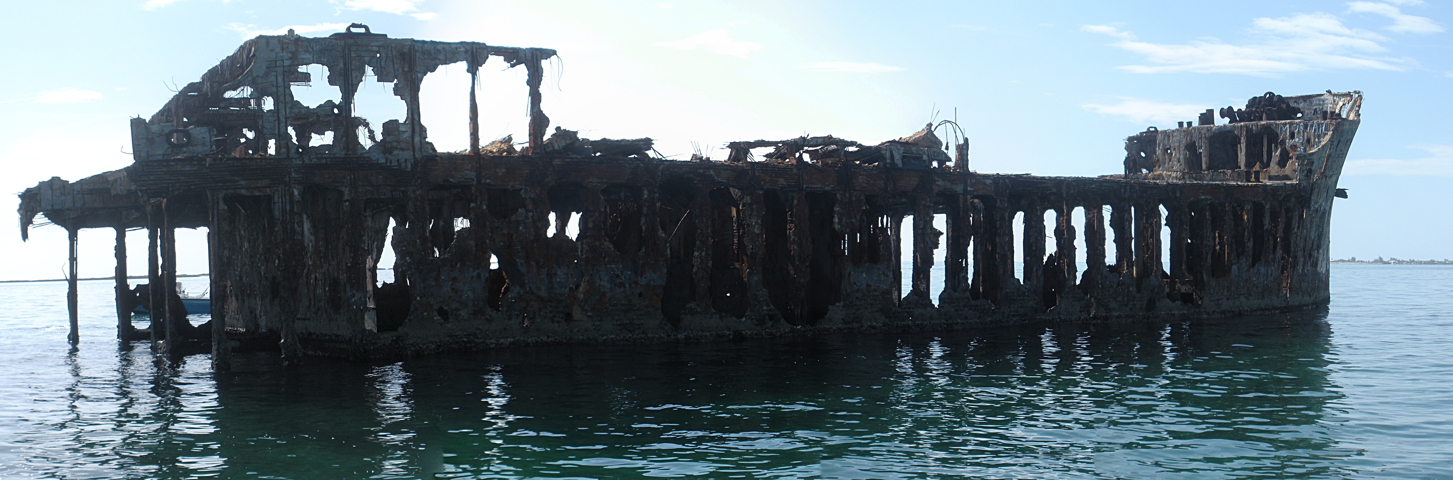 View of the SS Sapona's starboard side during low tide